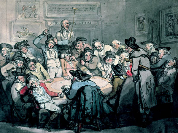 Thomas Rowlandson, brother satirist to Hogarth, painted his version of a gaming den in The Hazard Room. On the walls is a bouquet of gambler’s delights: boxing, horse racing, the odds of the day, and leading American card game compiler, Edmond Hoyle.